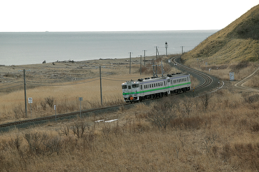 JR Hokkaido Nemuro Main Line, during Shakubetsu and Ombetsu, with Kiha 40-700 DMU.